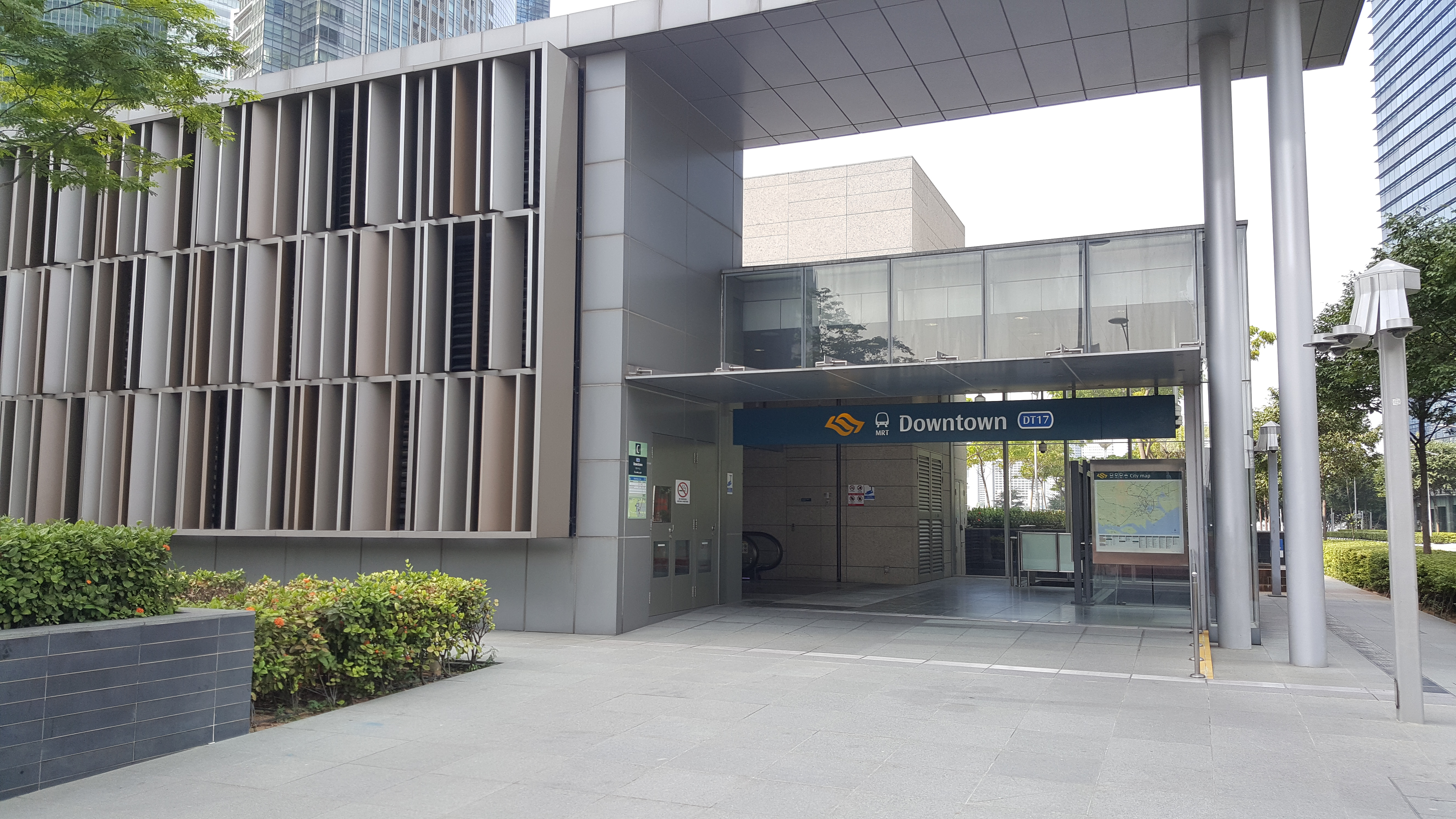 Exit C of Downtown MRT Station